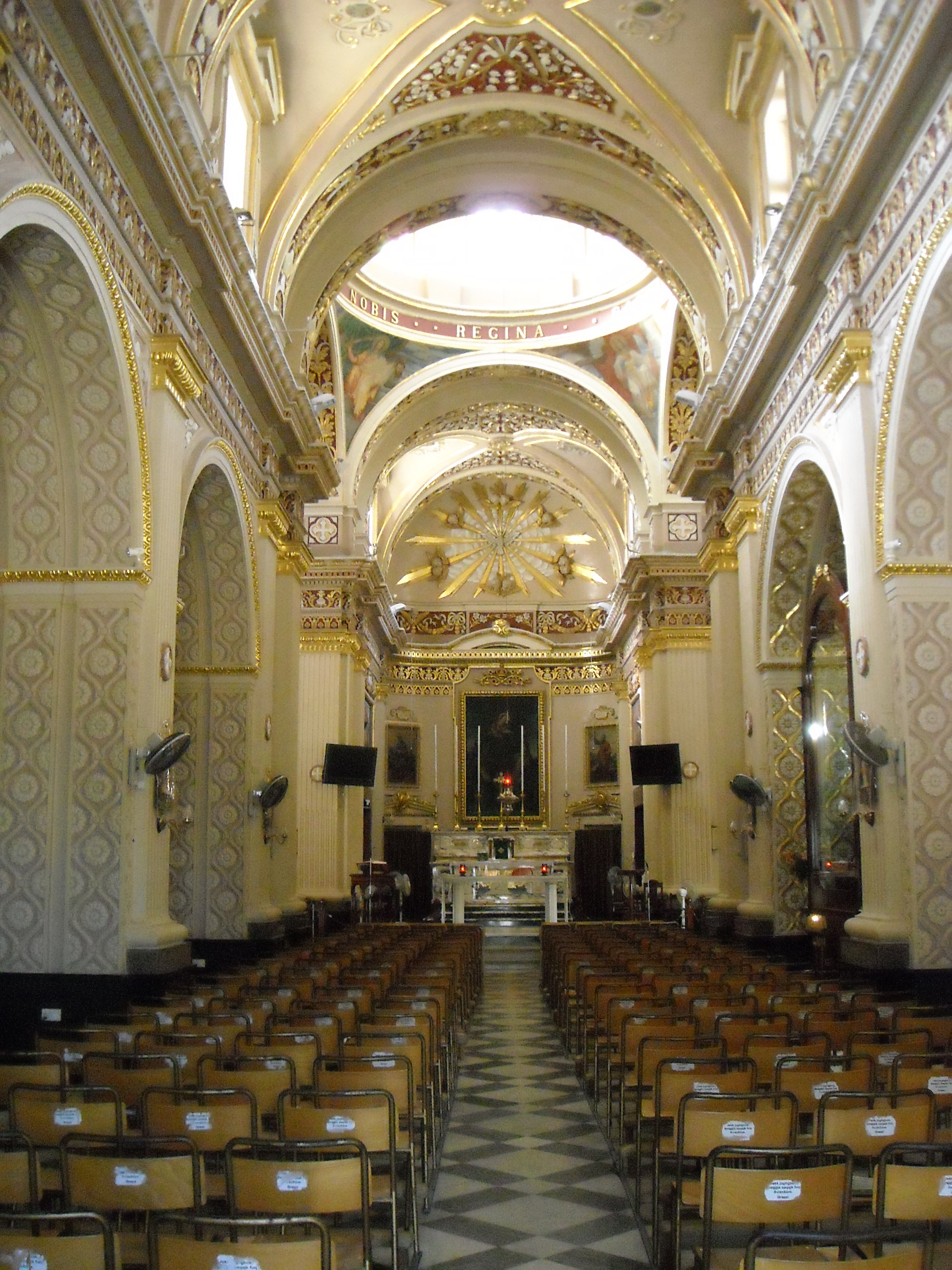 Inside view of the church of Our Lady of Pompei, Marsaxlokk, Malta